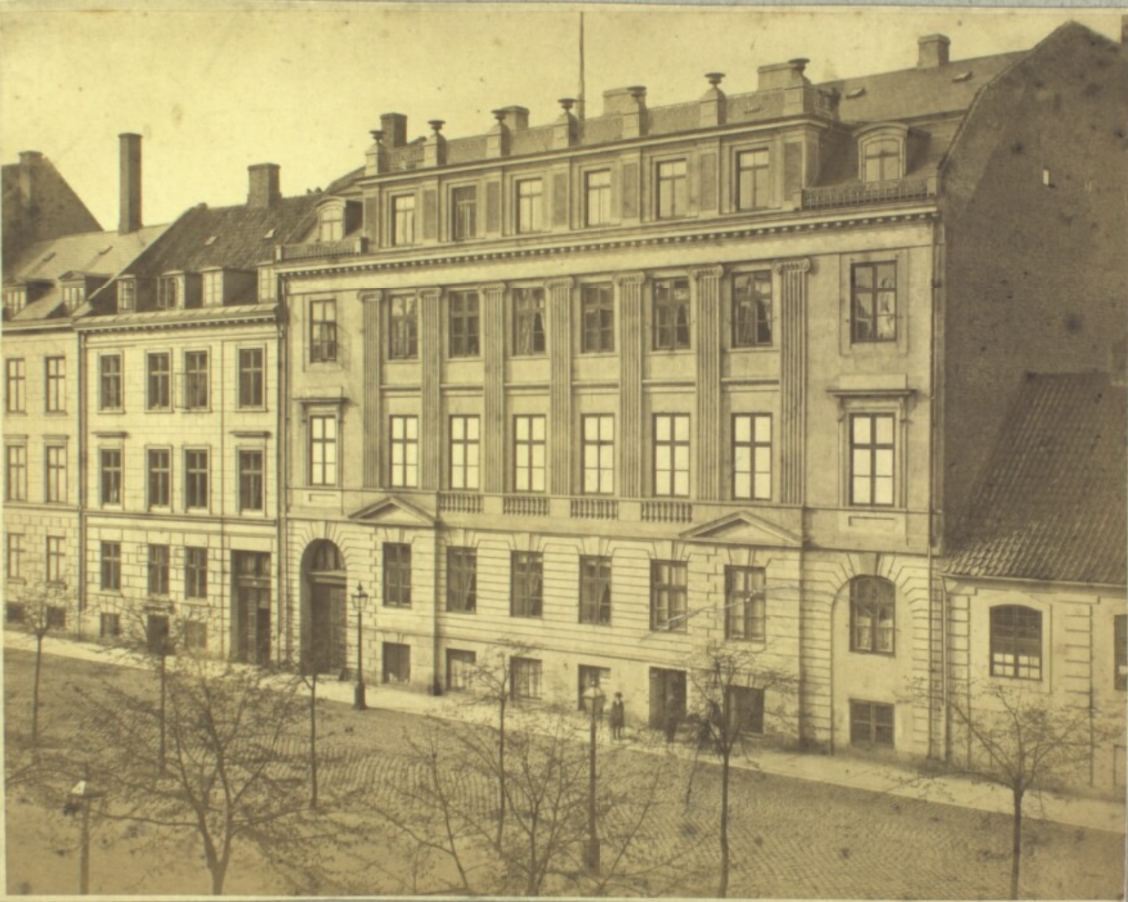 Sankt Annæ Plads 11 in Copenhagen, Denmark